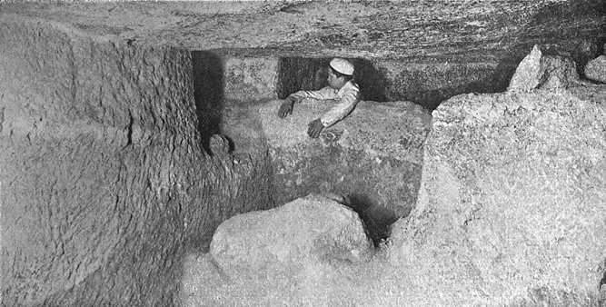 Subterran chamber of the Great Pyramid of Giza.